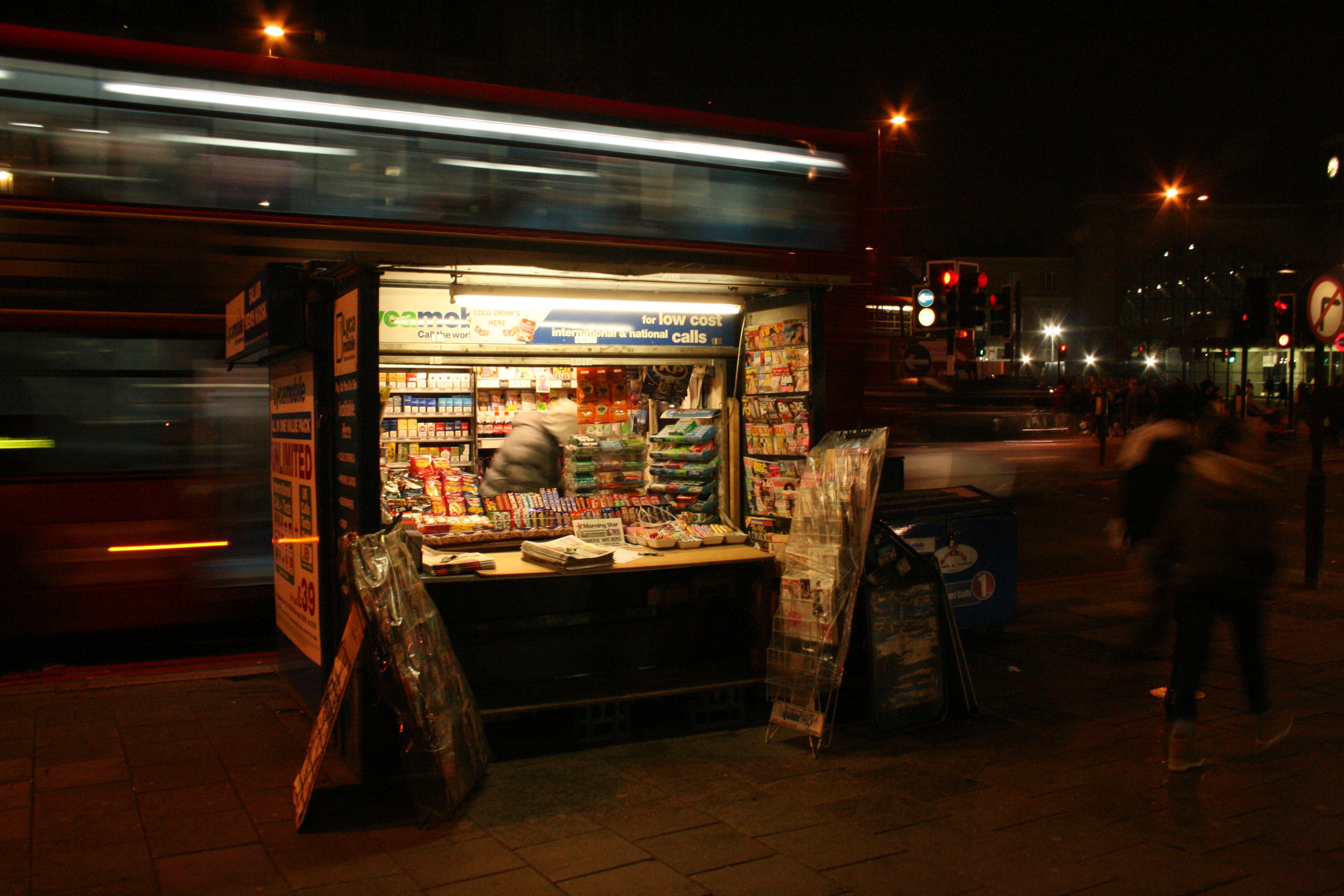 The nightly news vendor, Euston Road, King's Cross station, south side, March 7, 2013.